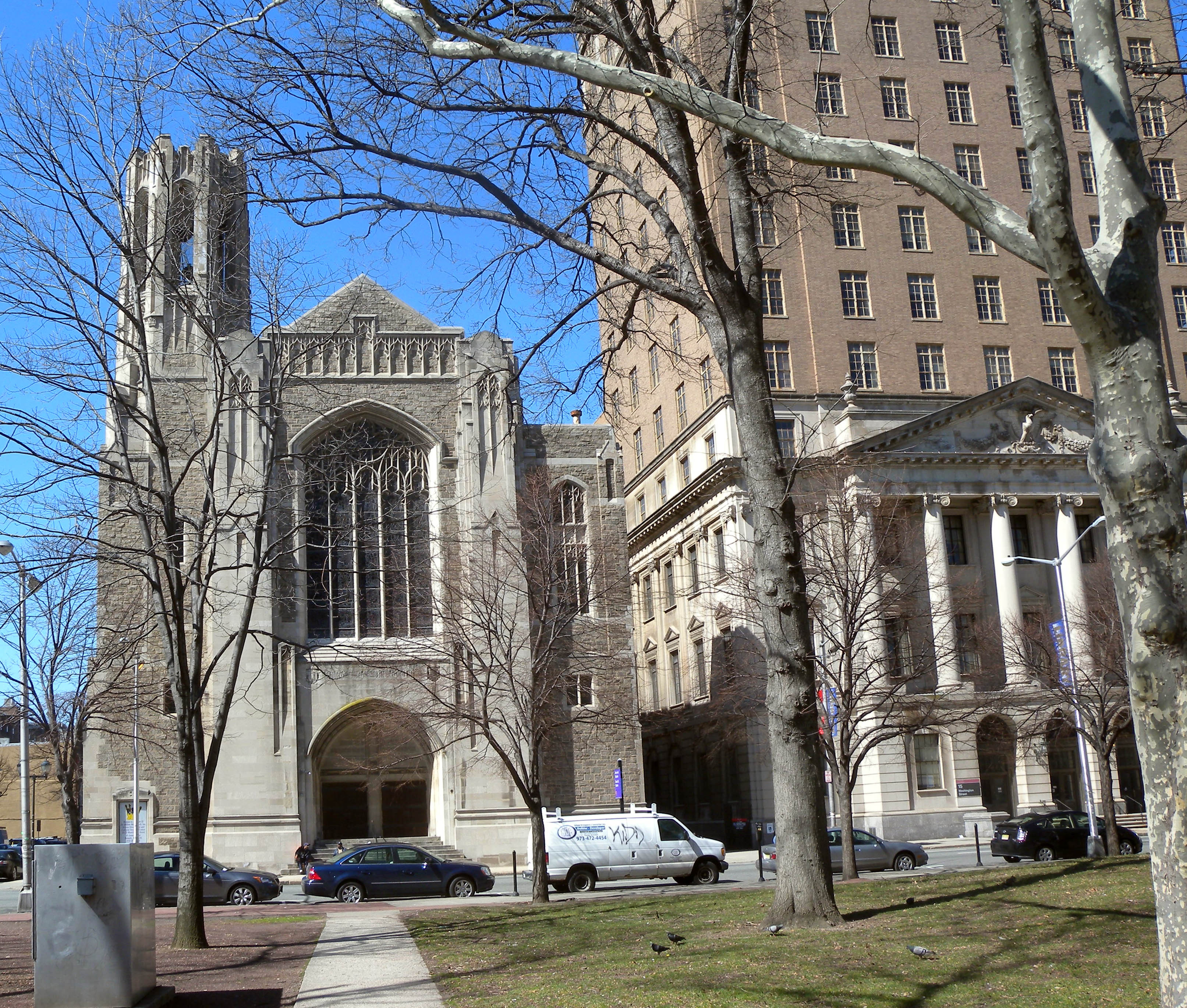 Looking west from Washington Park at former Second Presbyterian Church, 27 Washington Street [1] in James Commons Historic District in Newark on a sunny midday.